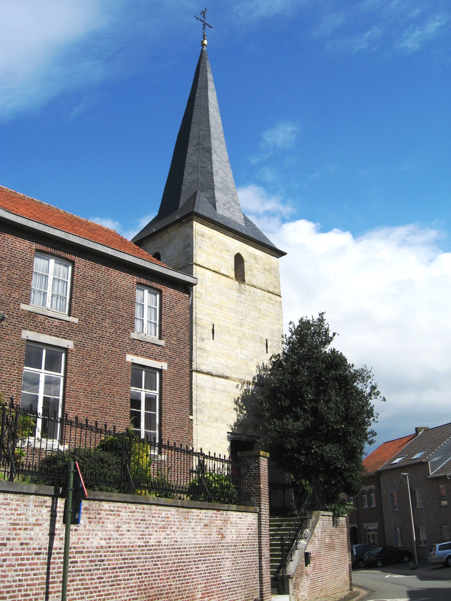 Church tower (13th century) of the former church of Saint Quentin in Hees, Bilzen, Limburg, Belgium